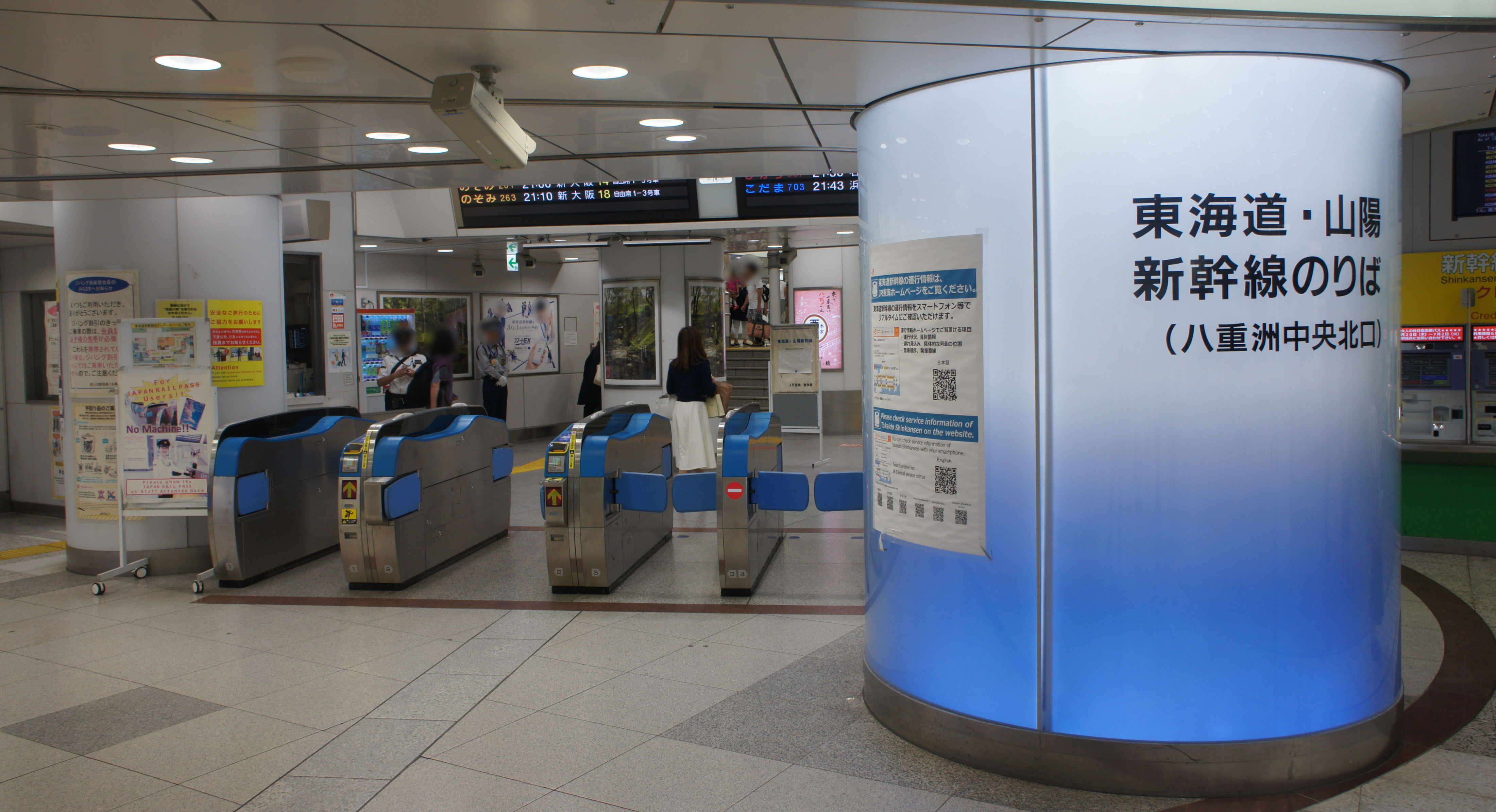 Yaesu Central North Gates of JR Tokyo Station Sony NEX-3 + E 18-55mm F3.5-5.6 OSS